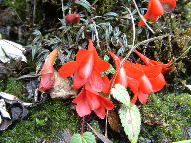 Dendrobium cuthbertsonii from Western New Guinea